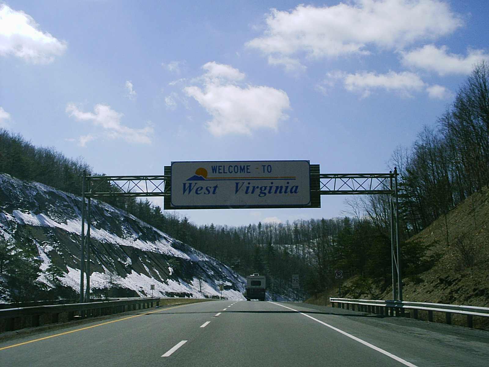 West Virginia state welcome sign on the eastern end of Interstate-64 (at the Virginia state line).